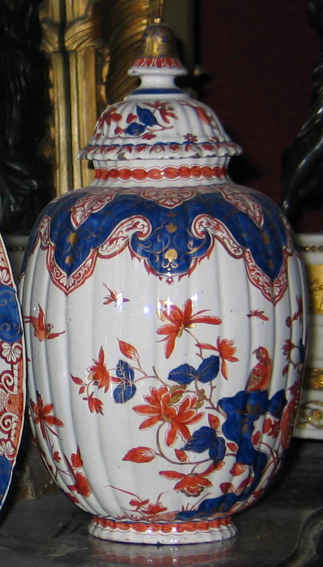 Vase in Imari-style, called Delft doré, made between 1700-1720, in the famous pottery Griekse A, now in Museum Geelvinck-Hinlopen Huis